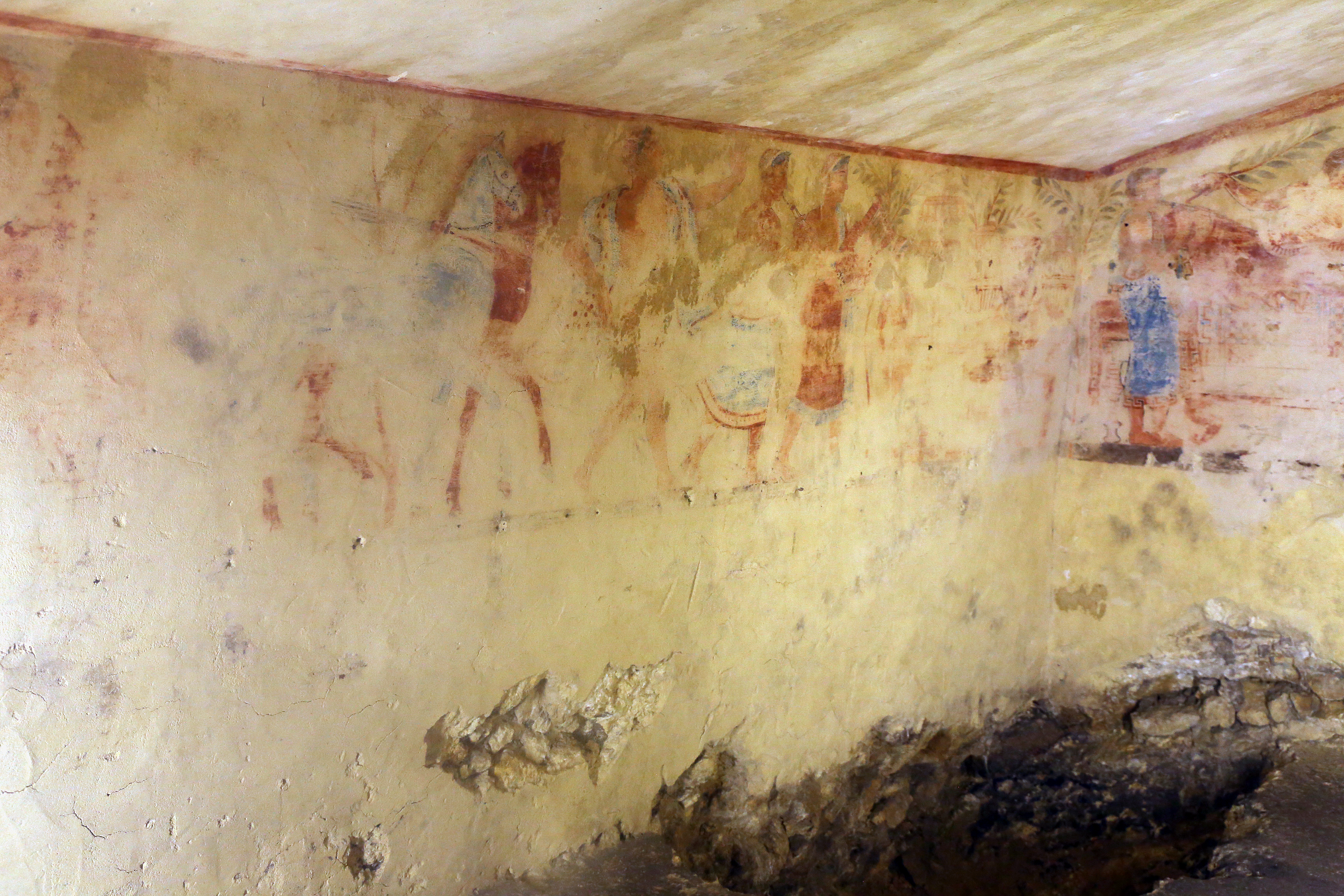 Necropoli dei Monterozzi (Tarquinia)